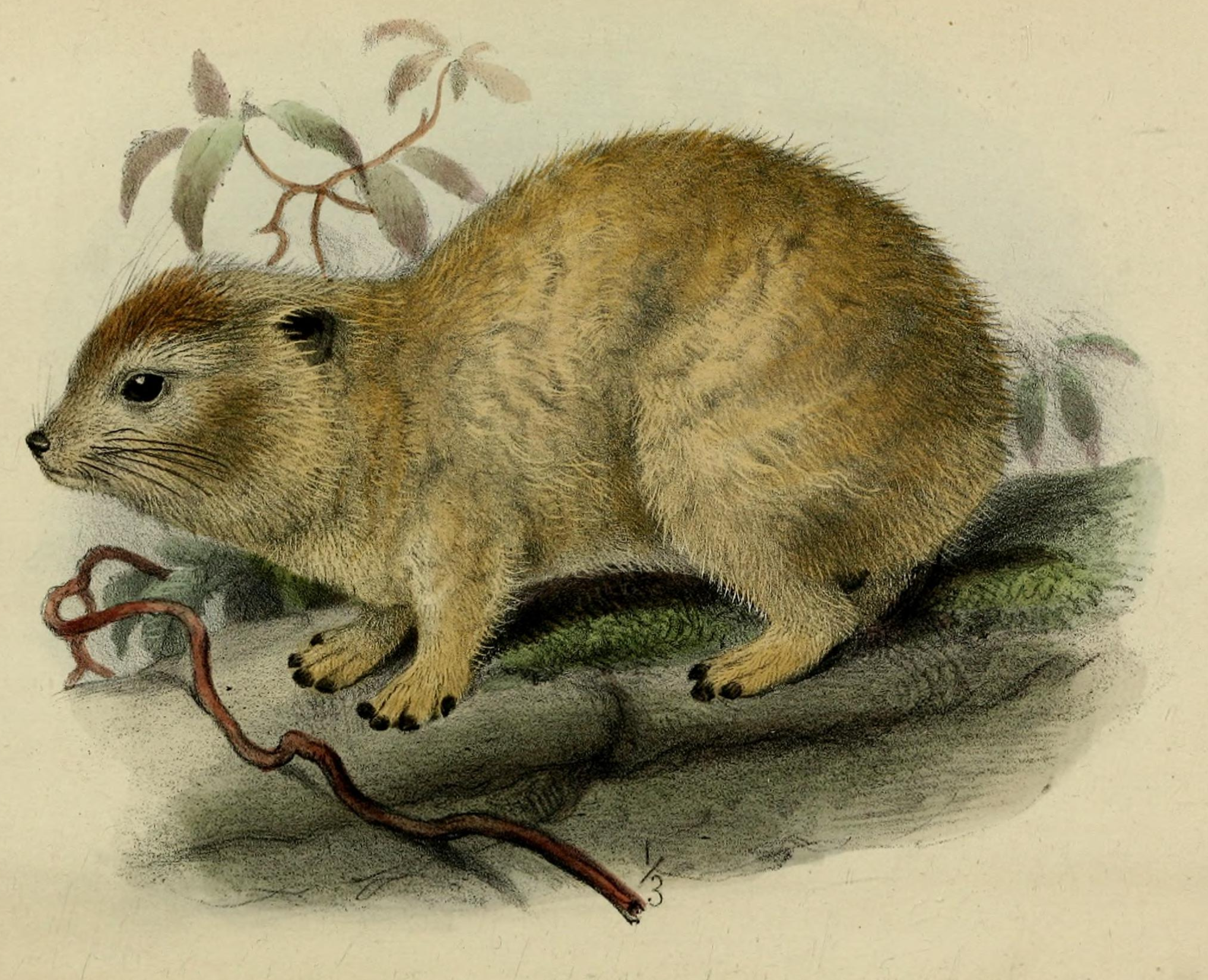 drawing of Dendrohyrax dorsalis emini published by Oldfield Thomas in his description 1887 (as Dendrohyrax emini): Oldfield Thomas: On a collection of mammals obtaines by Emin Pasha in Equatorial Africa and presented by him to the Natural History Museum. Proceedings of the Scientific Meetings of the Zoological Society of London 1887, pp. 3–17